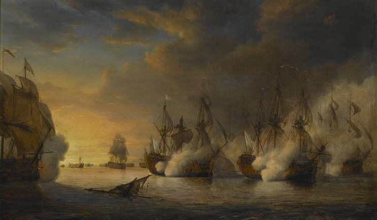 Battle of Cape Finisterre (October 1747). "Battle of the ship Intrepid against several British ships"